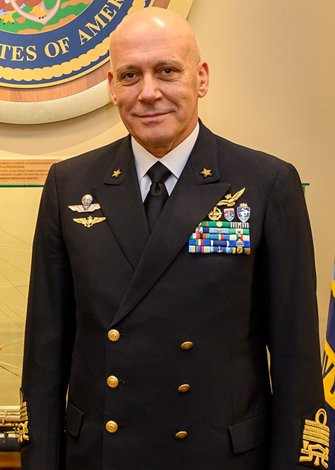 WASHINGTON (Feb. 11, 2020) Acting Secretary of the Navy Thomas B. Modly poses for a photo with Chief of Staff of the Italian Navy Adm. Giuseppe Cavo Dragone before a meeting at the Pentagon in Washington, D.C. (U.S. Navy photo by Mass Communication Specialist 2nd Class Alexander C. Kubitza/Released)